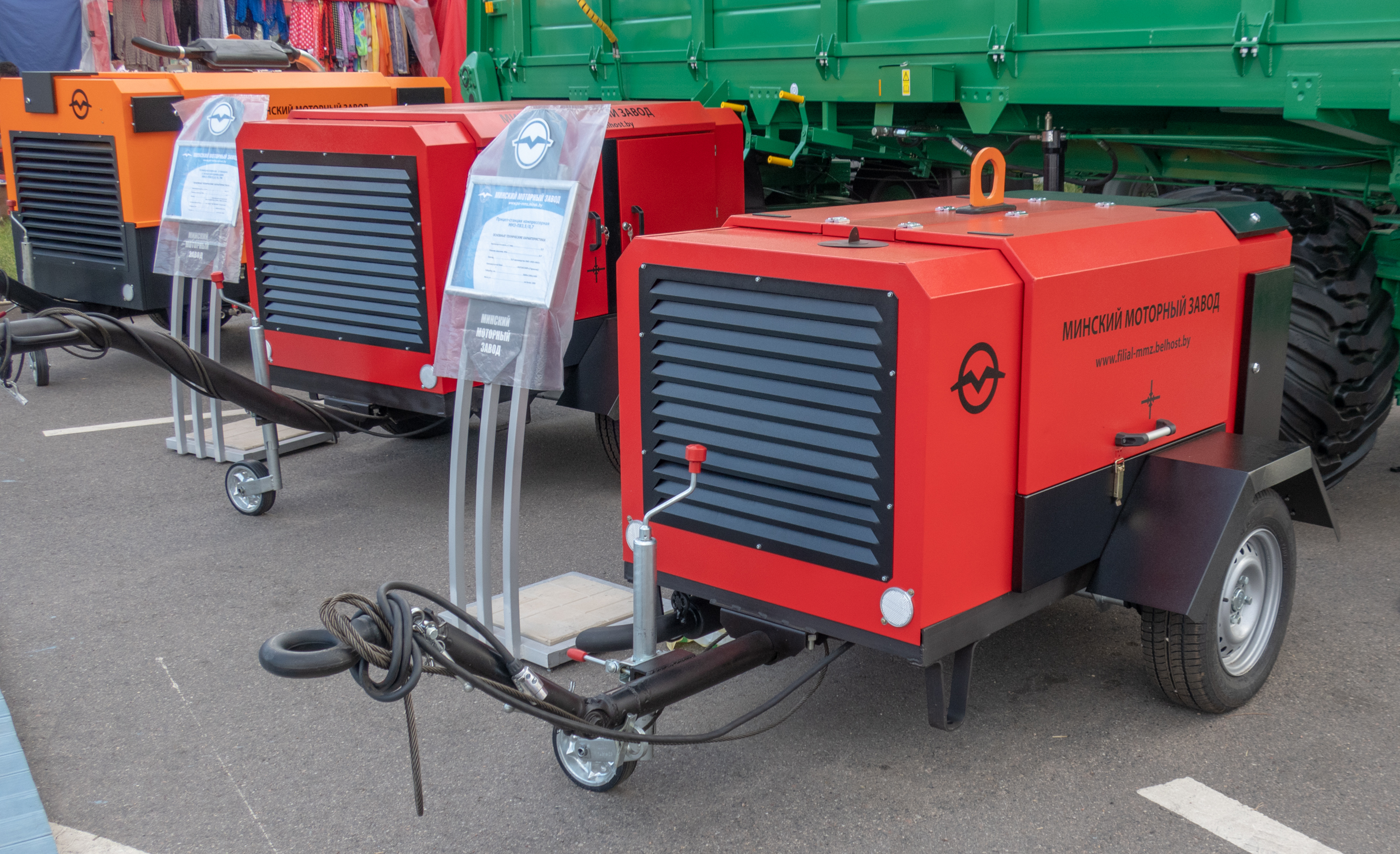 MMZ compressors